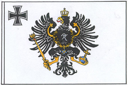 Prussian warflag Drawn by Theo van der Zalm